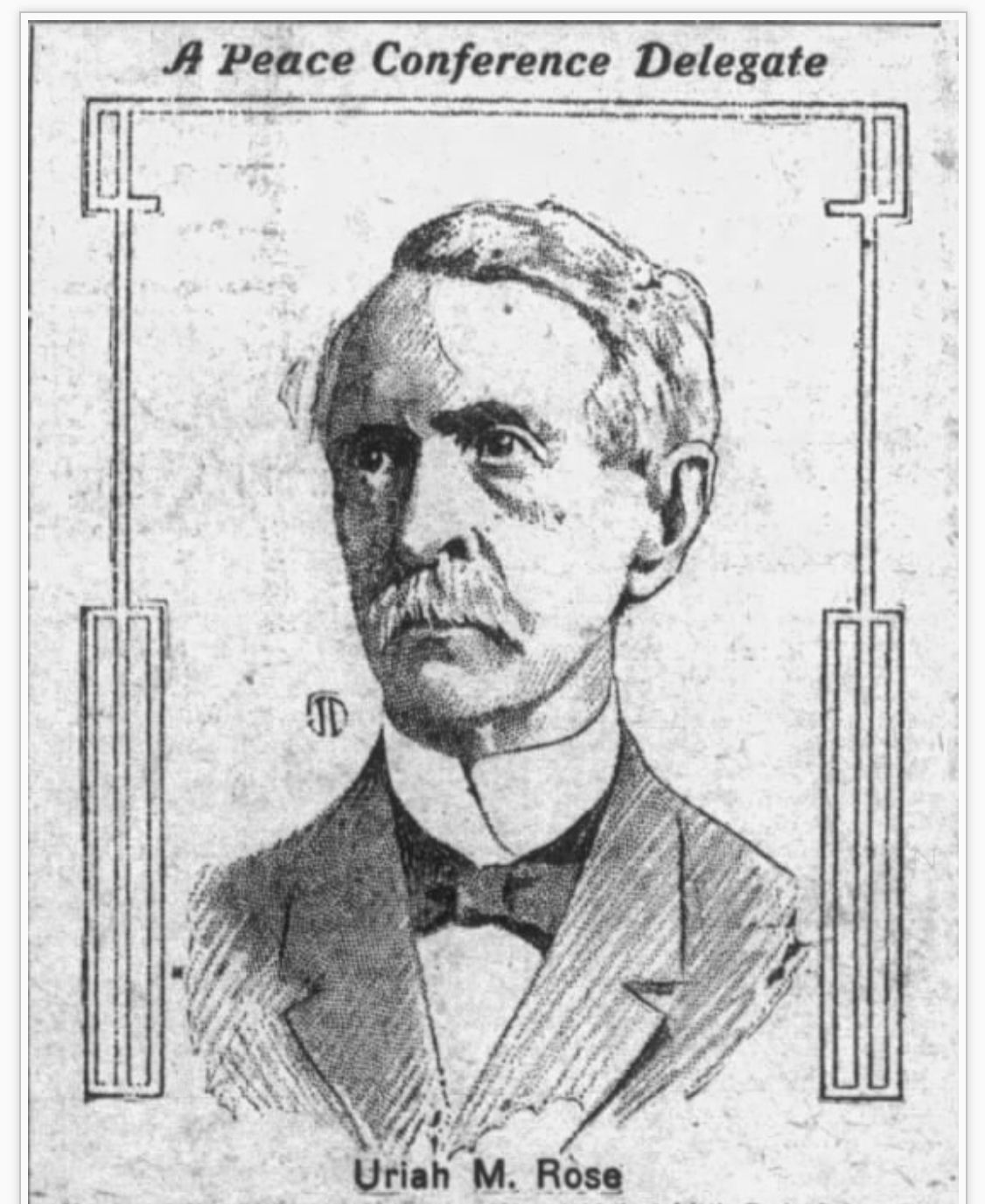 Uriah M. Rose was a founder and twice president of the American Bar Association.